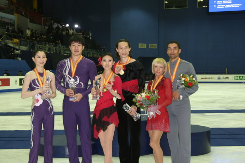 The pairs podium at the 2008-2009 Grand Prix of Figure Skating Final. From left: Zhang Dan / Zhang Hao (2nd), Pang Qing / Tong Jian (1st), Aliona Savchenko / Robin Szolkowy (3rd).